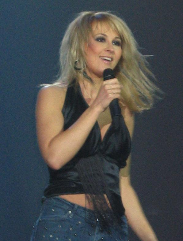 Karmen Stavec, Slovenian musician and pop-singer.